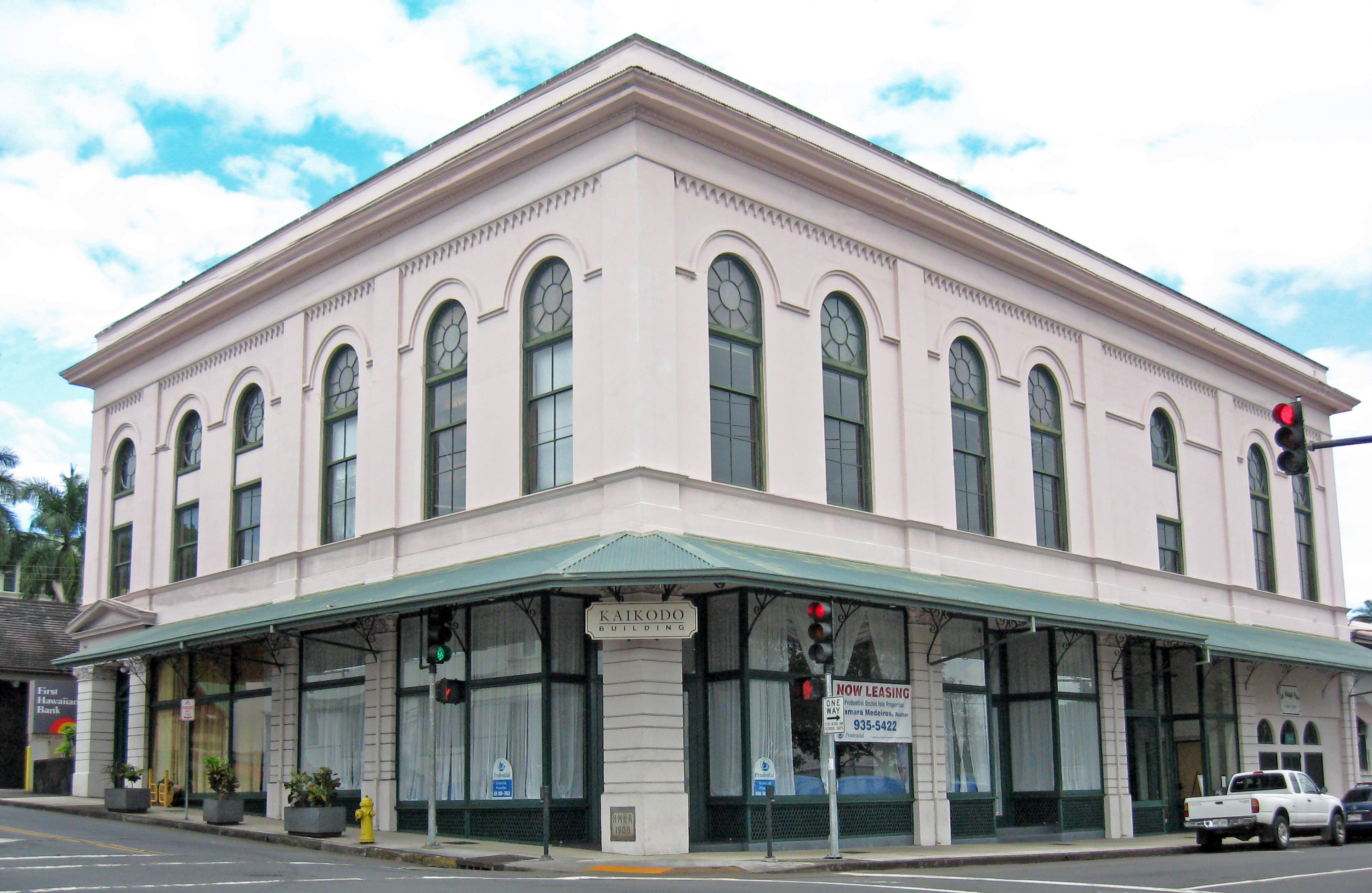 Hilo Masonic Lodge Hall-Bishop Trust Building in Hilo, Hawaii at the corner of Keawe and Waianuenue Streets. Added to National Register of Historic Places listsings on the the island of Hawaii April 21, 1994.